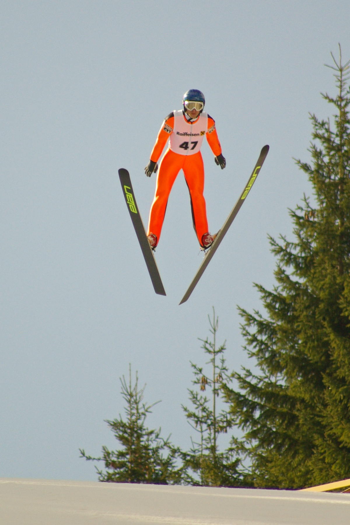 Austrian nordic combined skier Tobias Kammerlander during the World Cup B sprint event in Eisenerz (Austria) on 9 March 2008.